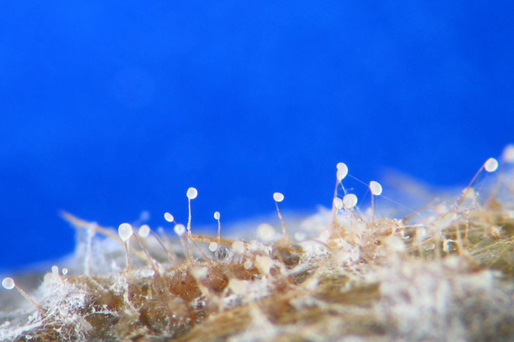 The spores produced by Ophiostoma sp.